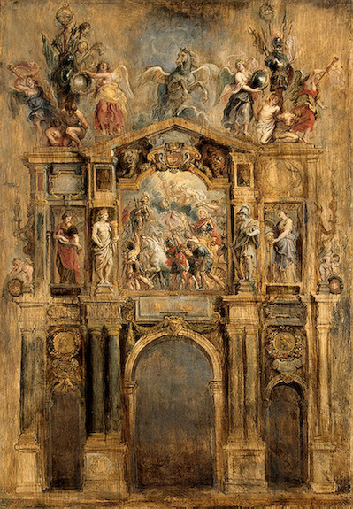 Arch of Ferdinand (reverse) . 1634. oil on panel. 104 × 72.5 cm (40.9 × 28.5 in). Saint Petersburg, Hermitage Museum.